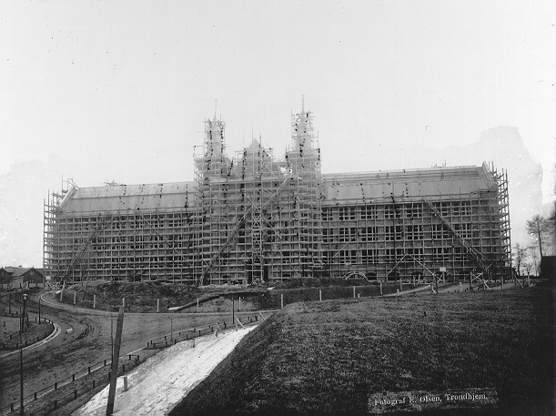 The Main Building (=Hovedbygningen) of The Norwegian Institute of Technology (NTH) under erection. It was opened in 1910. Architect: Bredo Greve. The building is situated on what is now known as Campus NTNU Gløshaugen, Trondheim.